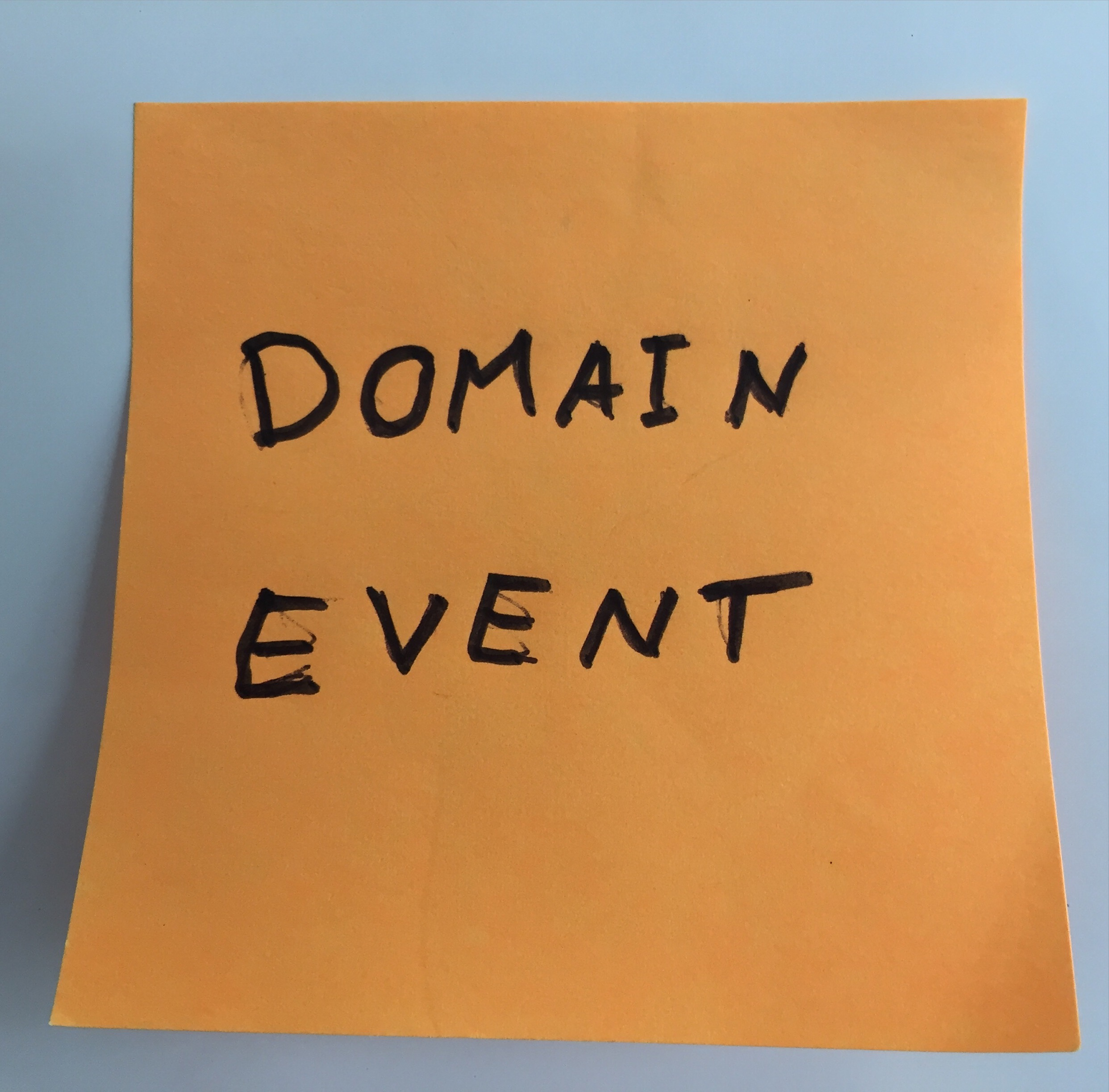 A domain event